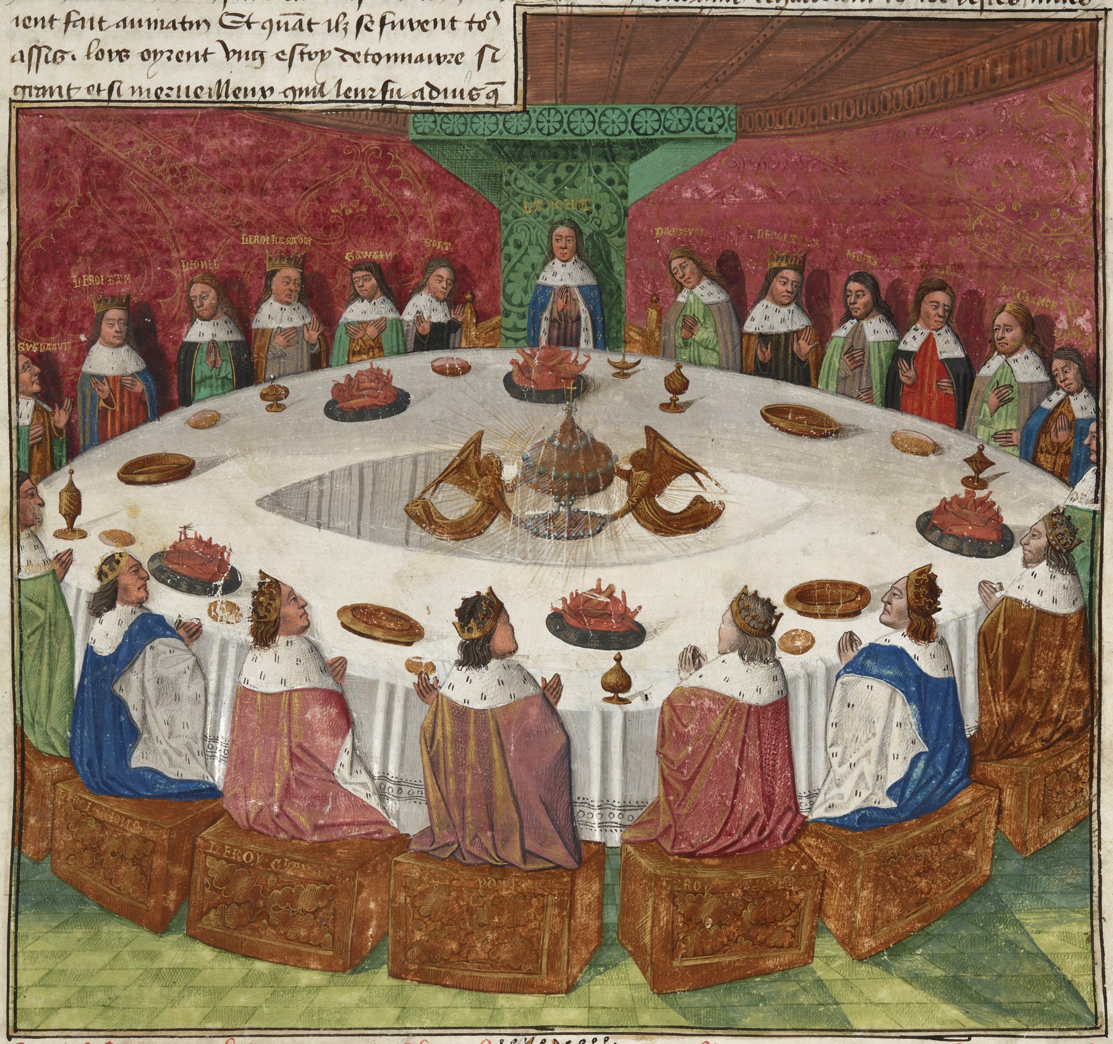 King Arthur's knights, gathered at the Round Table to celebrate Pentecost, see a vision of the Holy Grail. The Grail appears as a veiled ciborium, made of gold and decorated with jewels, held by two angels. From BNF 112, a manuscript of the prose Lancelot attributed to Walter Map (Gaultier Moap) or Michel Gantelet.